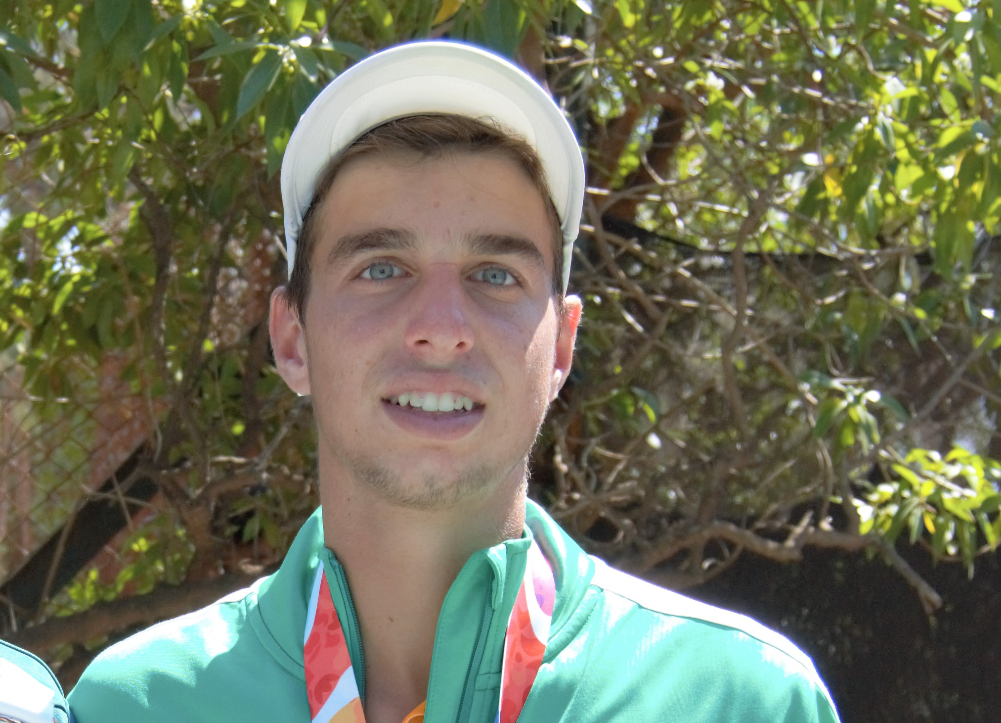 Victory ceremony of the boys doubles tennis tournament of the 2018 Summer Youth Olympics.